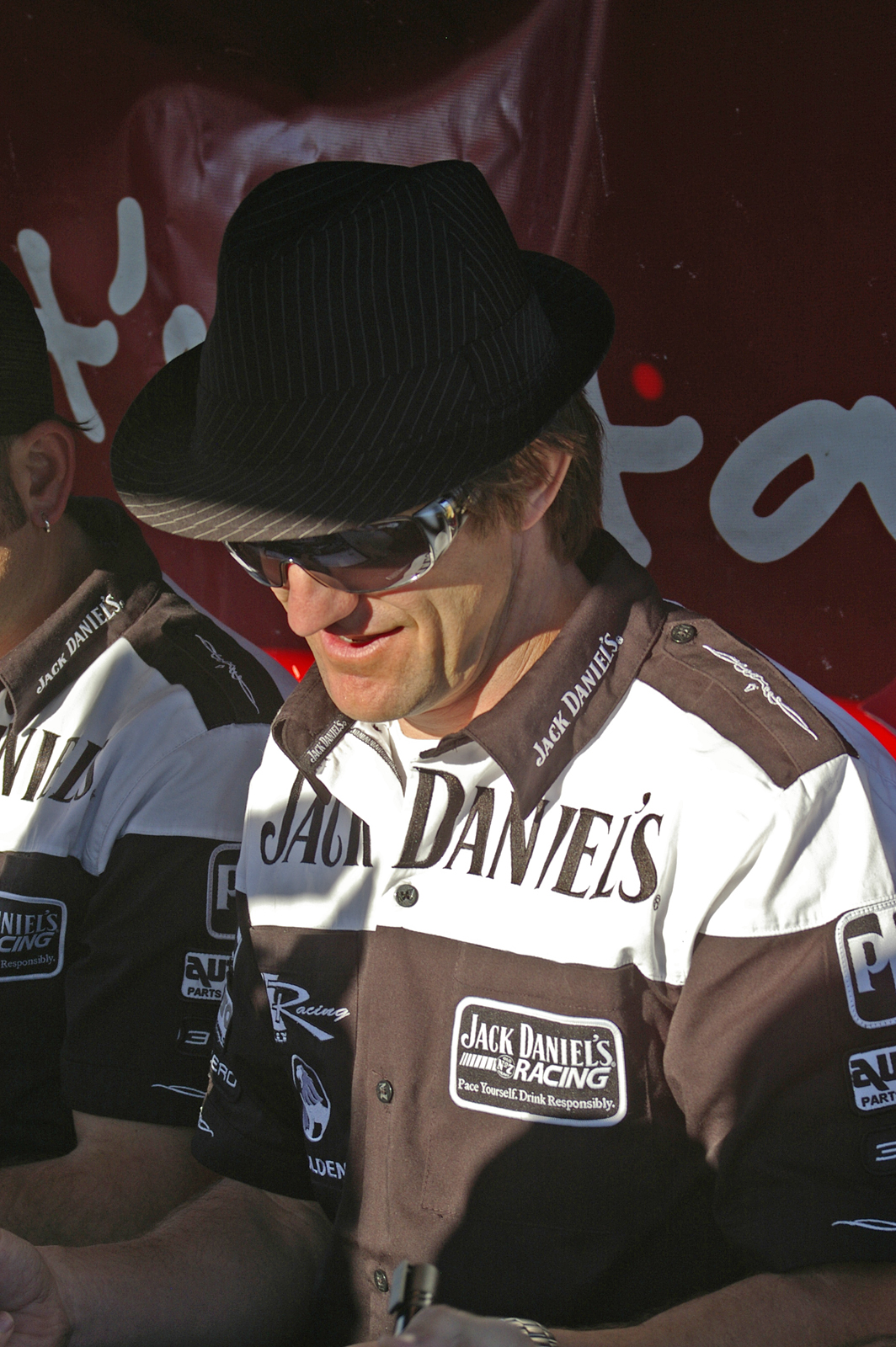 Nathan Pretty at an autographing session at Red Rooster in Wagga Wagga, New South Wales.